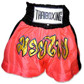 Muay Thai shorts, see more in